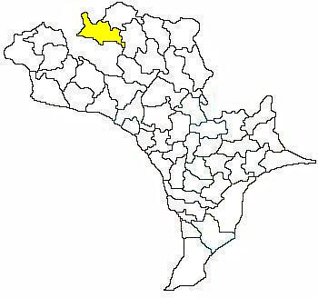 Mandal map of Krishna district showing Vijayawada (rural) mandal (in yellow)